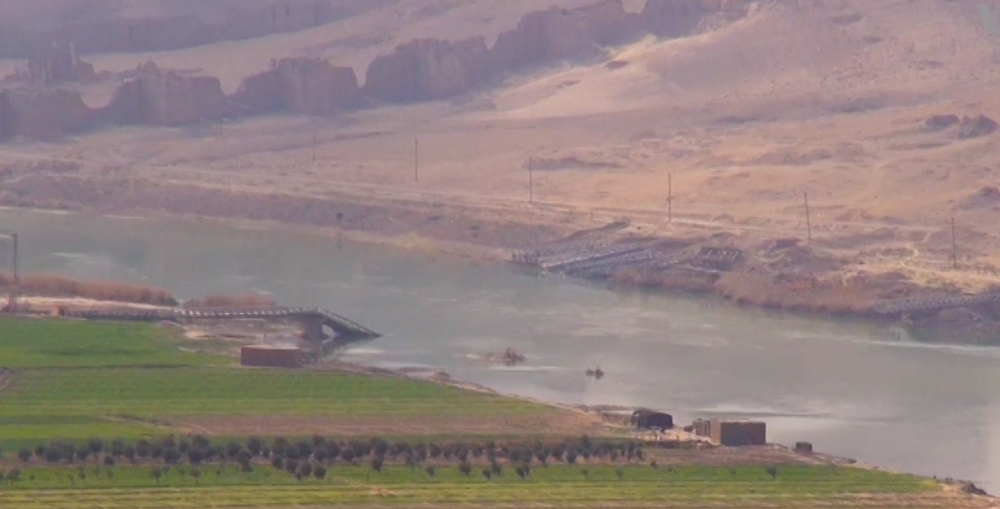 A destroyed bridge over the Euphrates during the Raqqa offensive in 2017.